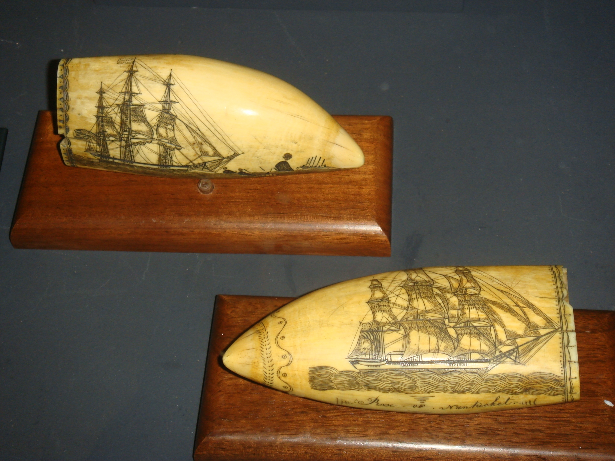 Born in 1805 on Nantucket, Edward Burdett went on his first whaling voyage at the age of 17. Burdett developed a unique, intaglio style with deep gouged out, areas and dramatic, bold, dark lines. Burdett was a deck officer when died a tragic death at the age of 27.A harpoon line 'running out' from the deck caught around his feet and dragged him overboard to drown in the ocean. The second whale ship in this photograph is not identified.